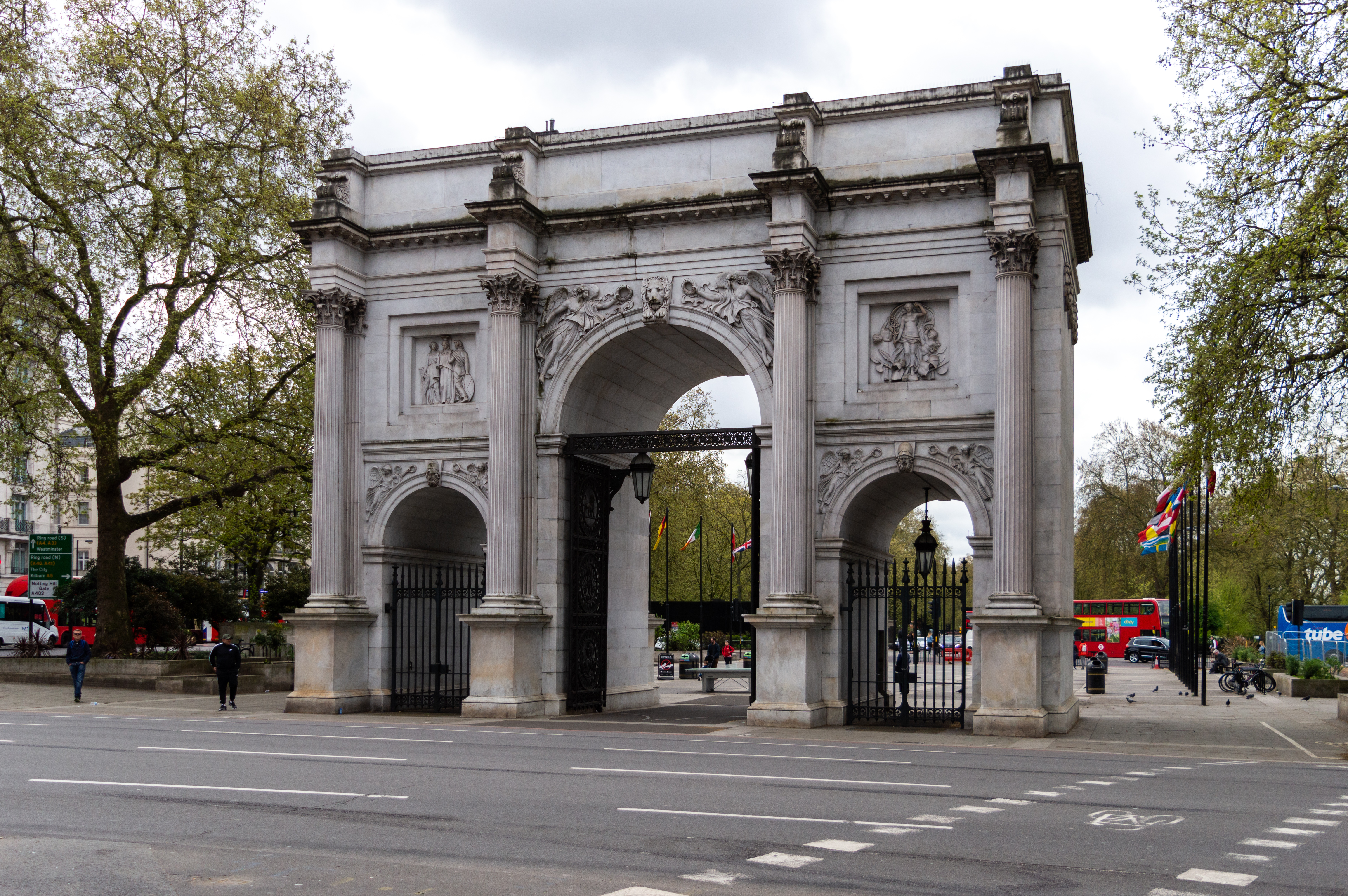 Marble Arch in London, seen from the other side of the namesake road.